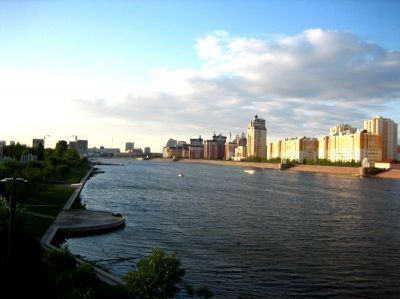 Ishim River in Nur-Sultan, Kazakhstan.